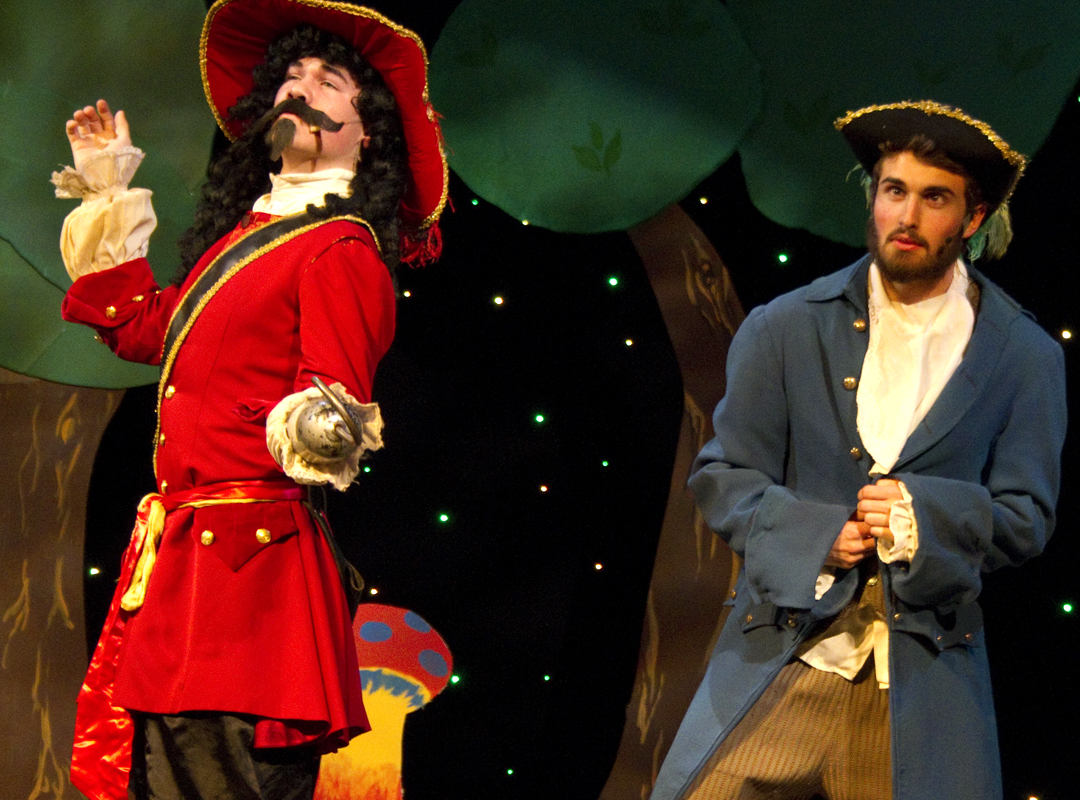 St. David's School (Raleigh, North Carolina)St. David's has a robust performing arts program, including large-stage performances like Peter Pan (pictured here, with Zach Rabon and Chris Widin as Hook and Smee) in the school's newly completed state-of-the-art Performing Arts Center